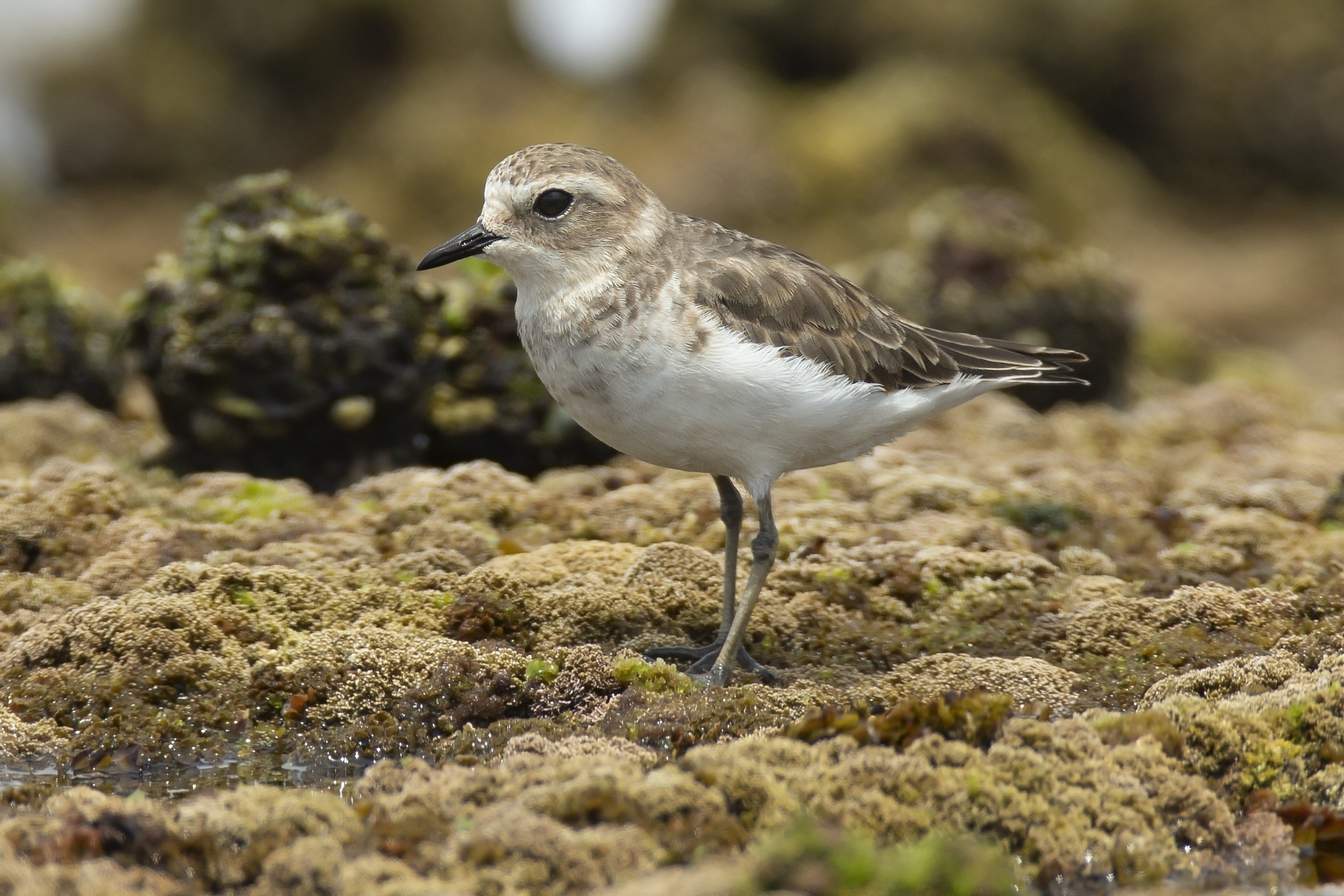 Double-banded Plover (Charadrius bicinctus) non-breeding plumage, Boat Harbour, New South Wales, Australia